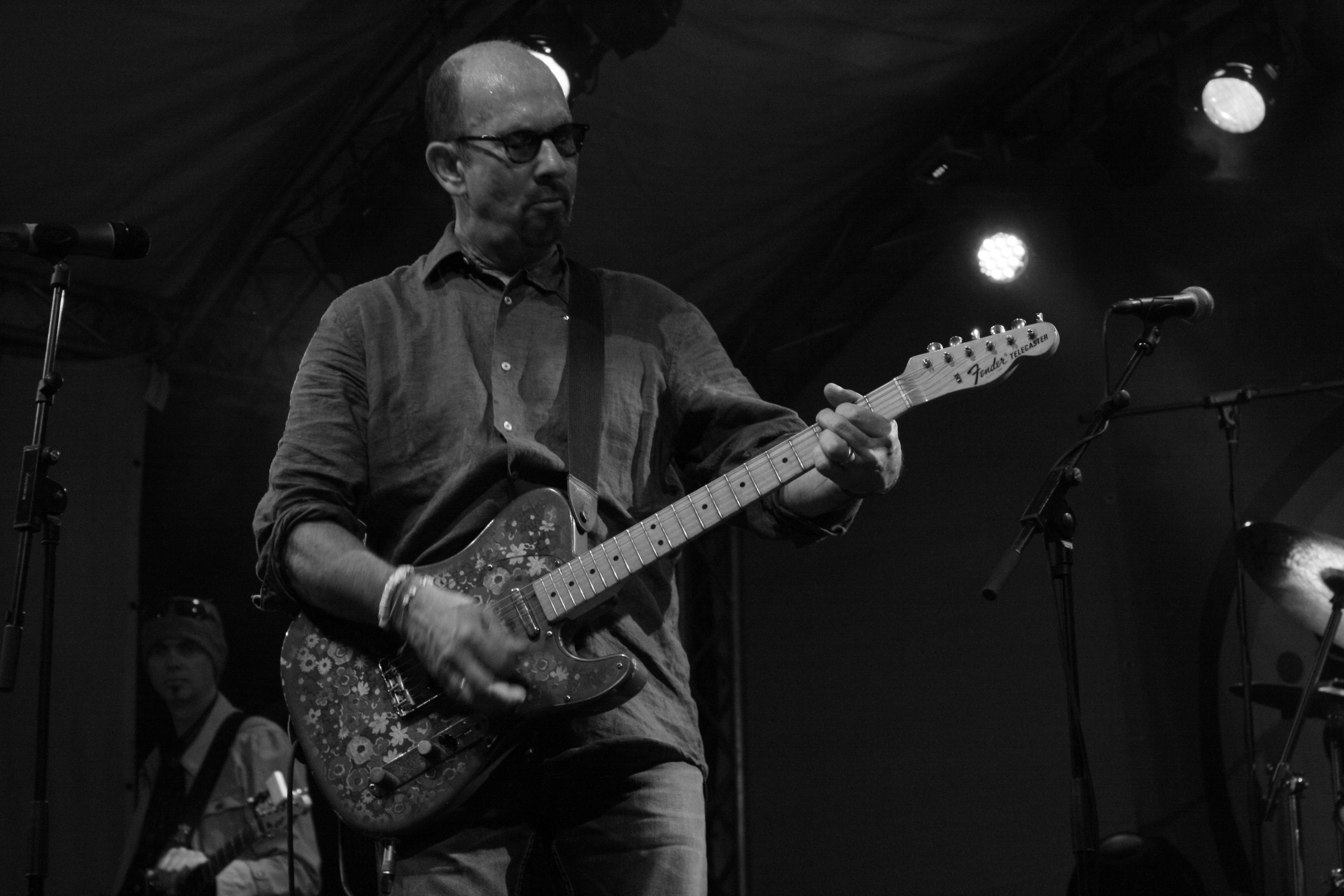 Chris Thompson at the Wolters Hoffest 2010.